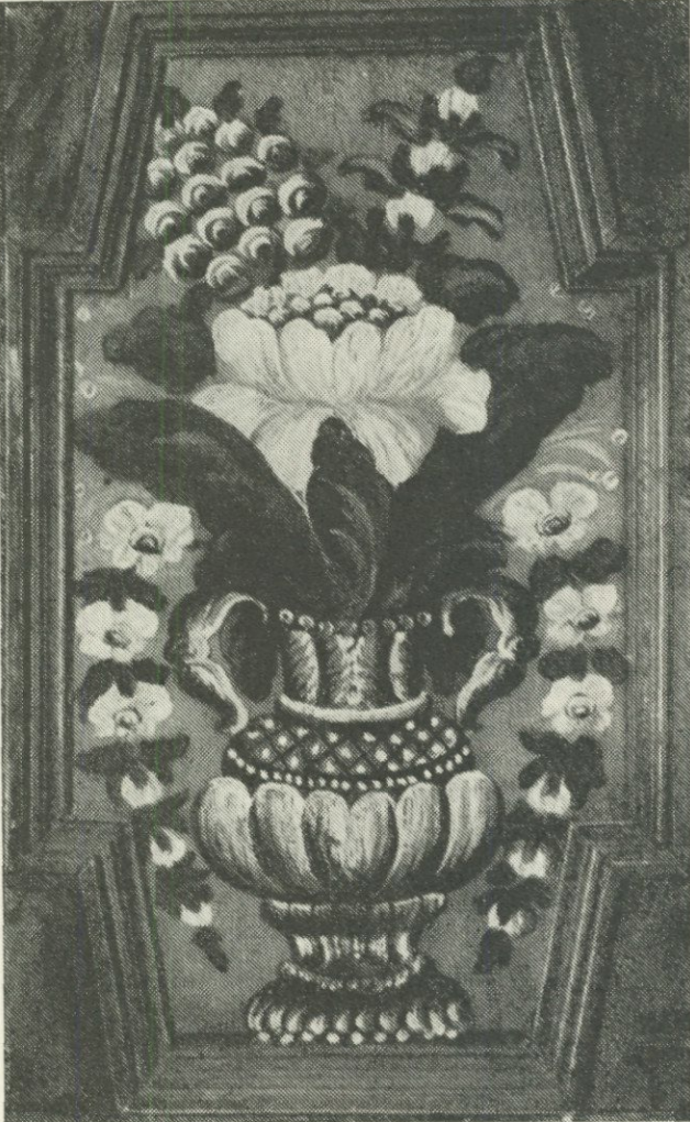 Kurbits art from Dalarna, Sweden. Flowers painted on a cupboard by Målar Erik Eliasson in 1780 black/white. The original, of course, is in bright colours